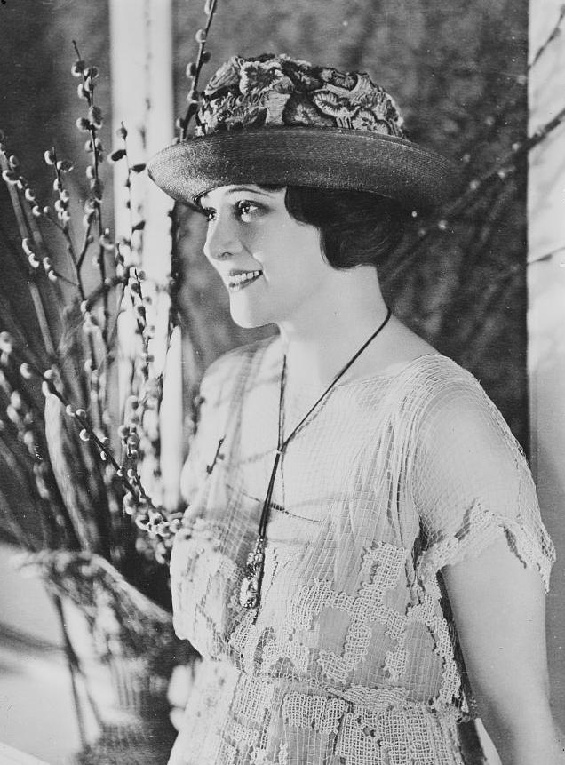 american actress Irene Rich (1891-1988)